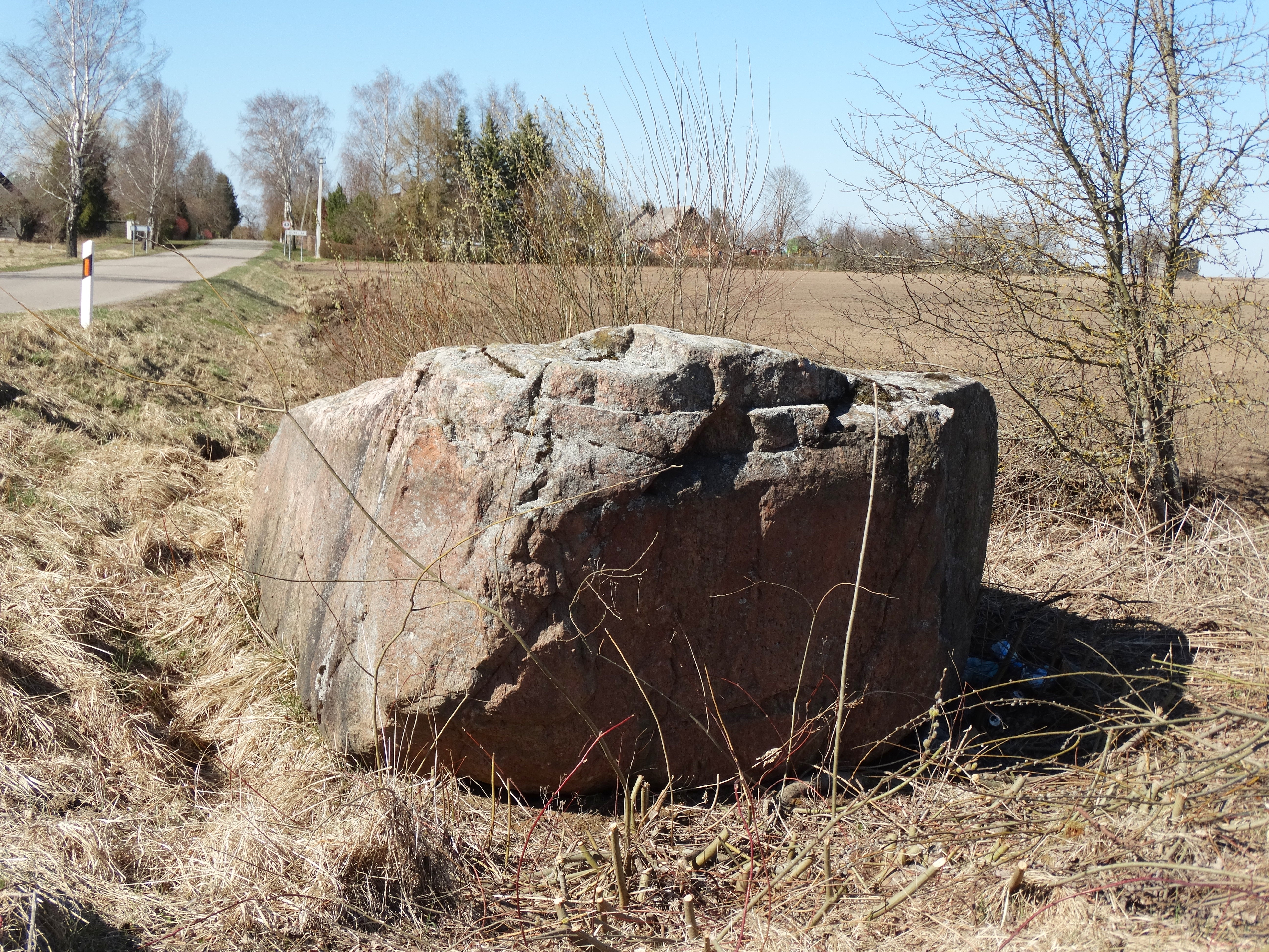 Stone, Kurkliai, Radviliškis District, Lithuania